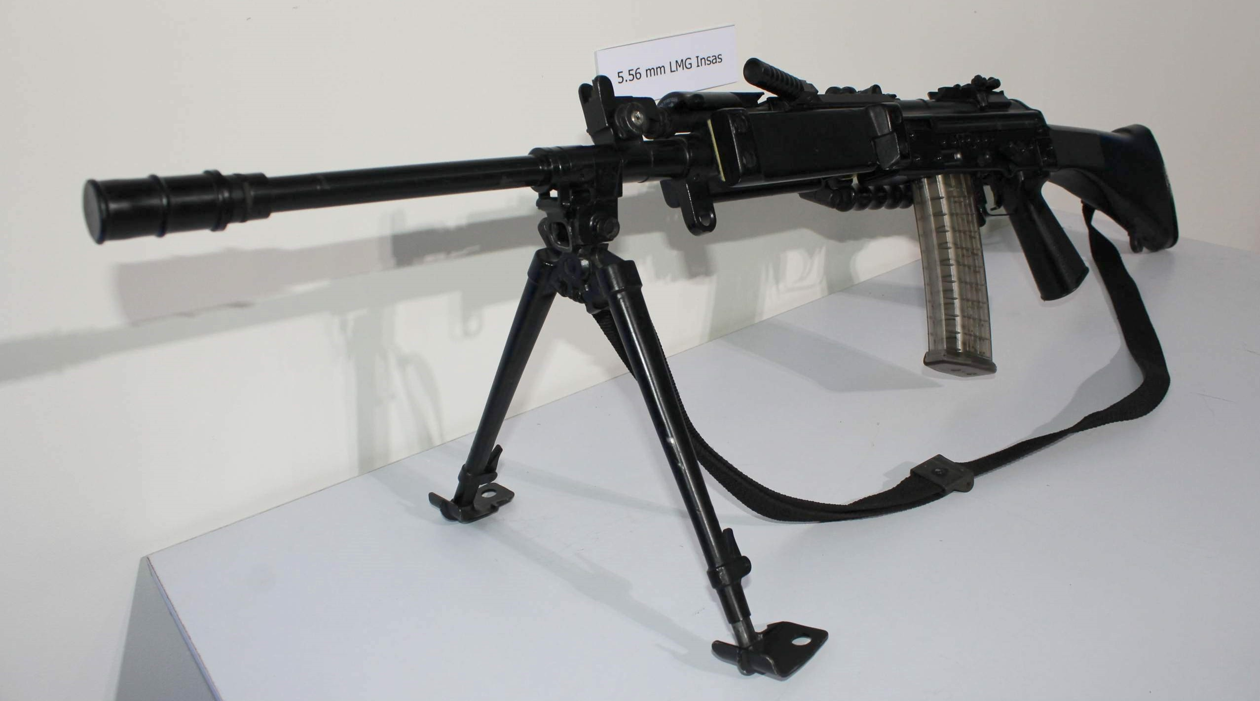 a light machine gun of Indian origin